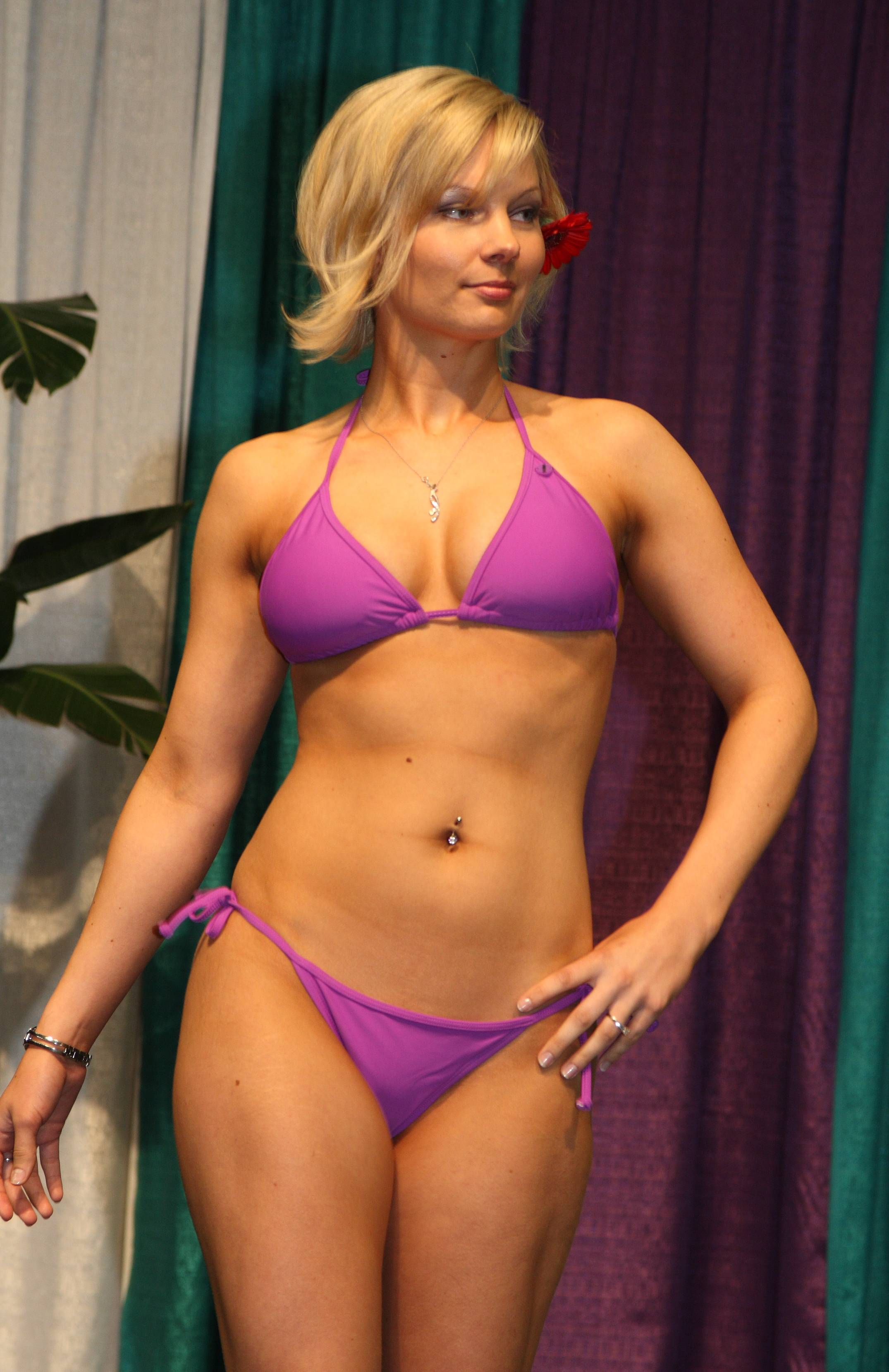 Run to the Sun is a swimsuit and women's fashion store in Anchorage, Alaska. As part of the annual Women's Show in April 2009, Run to the Sun had a fashion show. One of the models invited me to attend to shoot the event. It was pretty cool - great afternoon, the only drawback was the lighting in the Sullivan Arena wasn't very good. I met several of the models afterward and hope to shoot with them in the future.